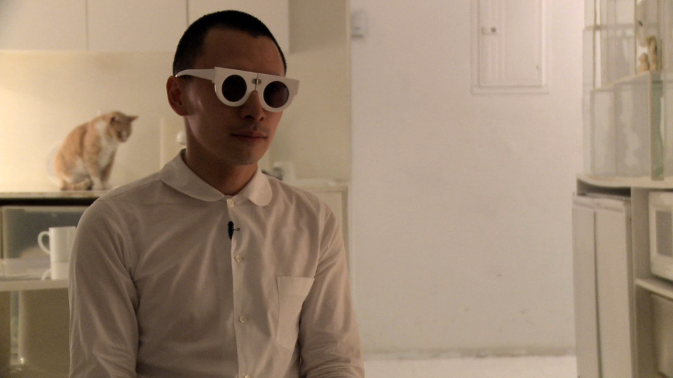 Canadian artist Terence Koh. Still image from the 2010 documentary "The Future of Art" by Erik Niedling and Ingo Niermann.